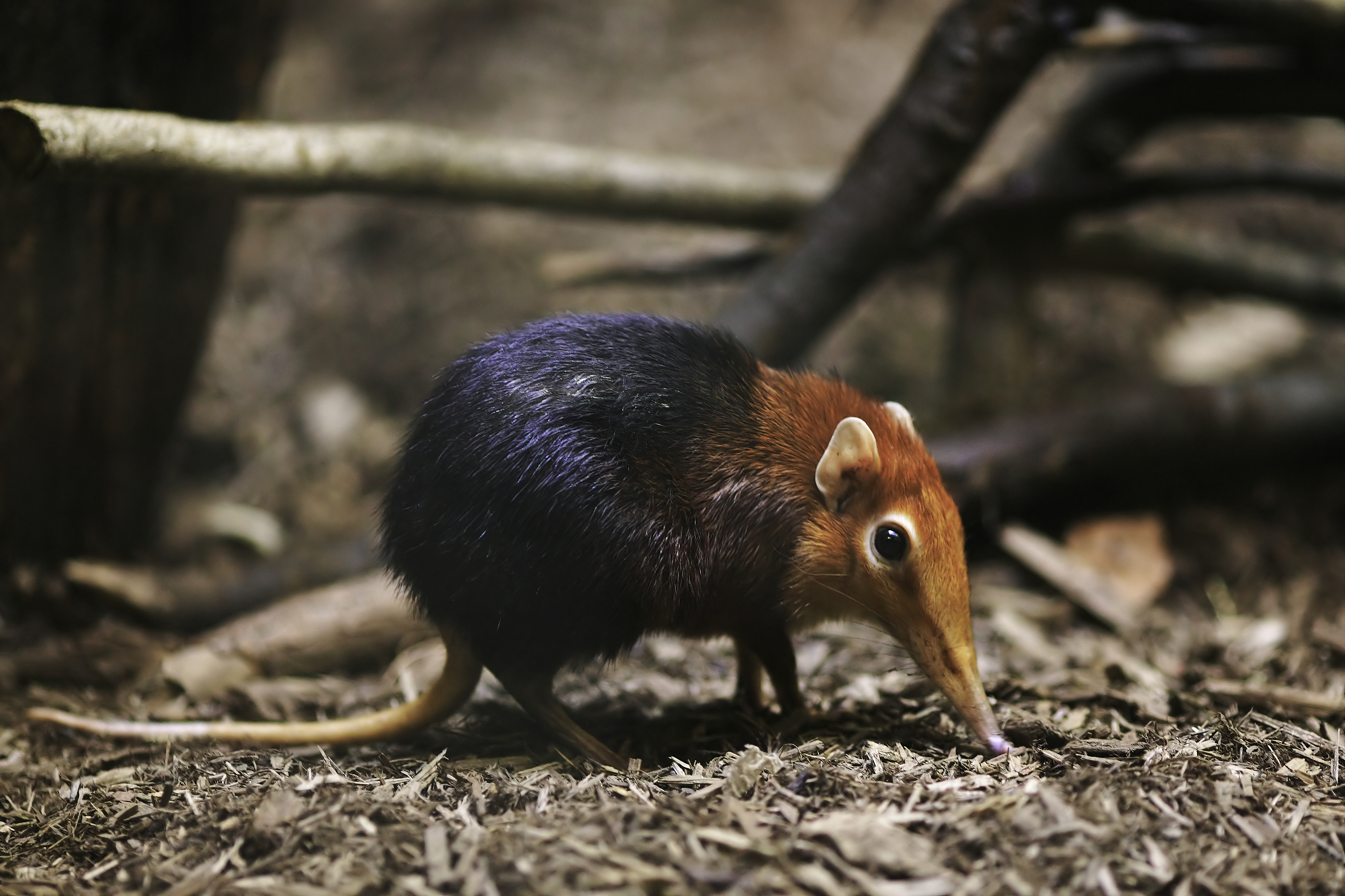 Black and rufous elephant shrew (Rhynchocyon petersi) in Philadelphia Zoo